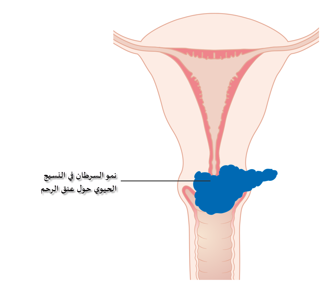 Diagram showing stage 2B cervical cancer.